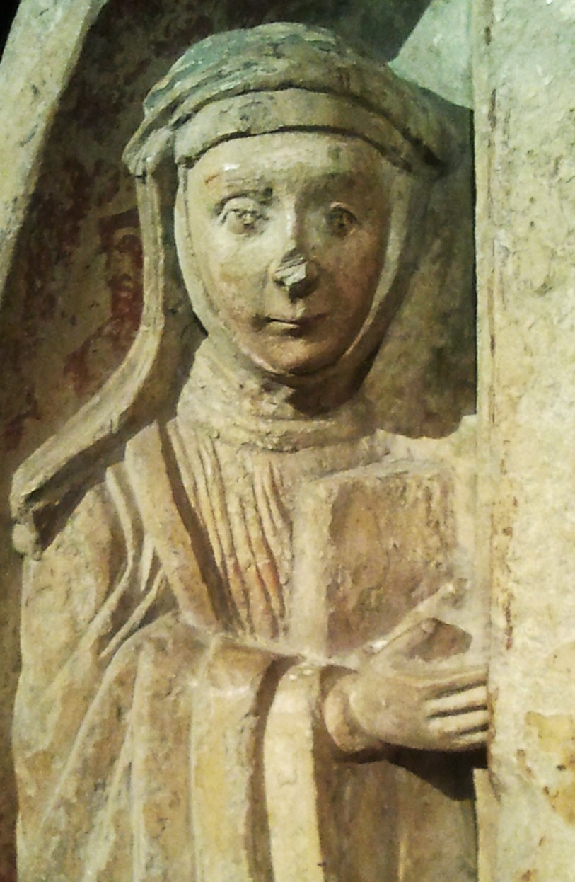 Abbess Agnes, sister of King Ottokar I, at the Romanesque relief in the St. George Convent in the Prague Castle made in 1220s.